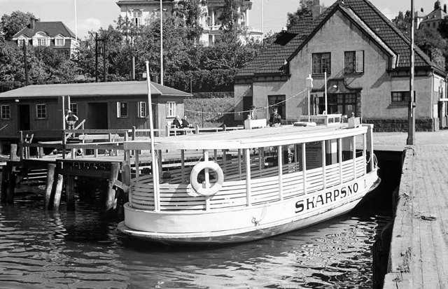 Skarpsno Station on the Drammen Line and the Skarpsno Ferry, Oslo, Norway.